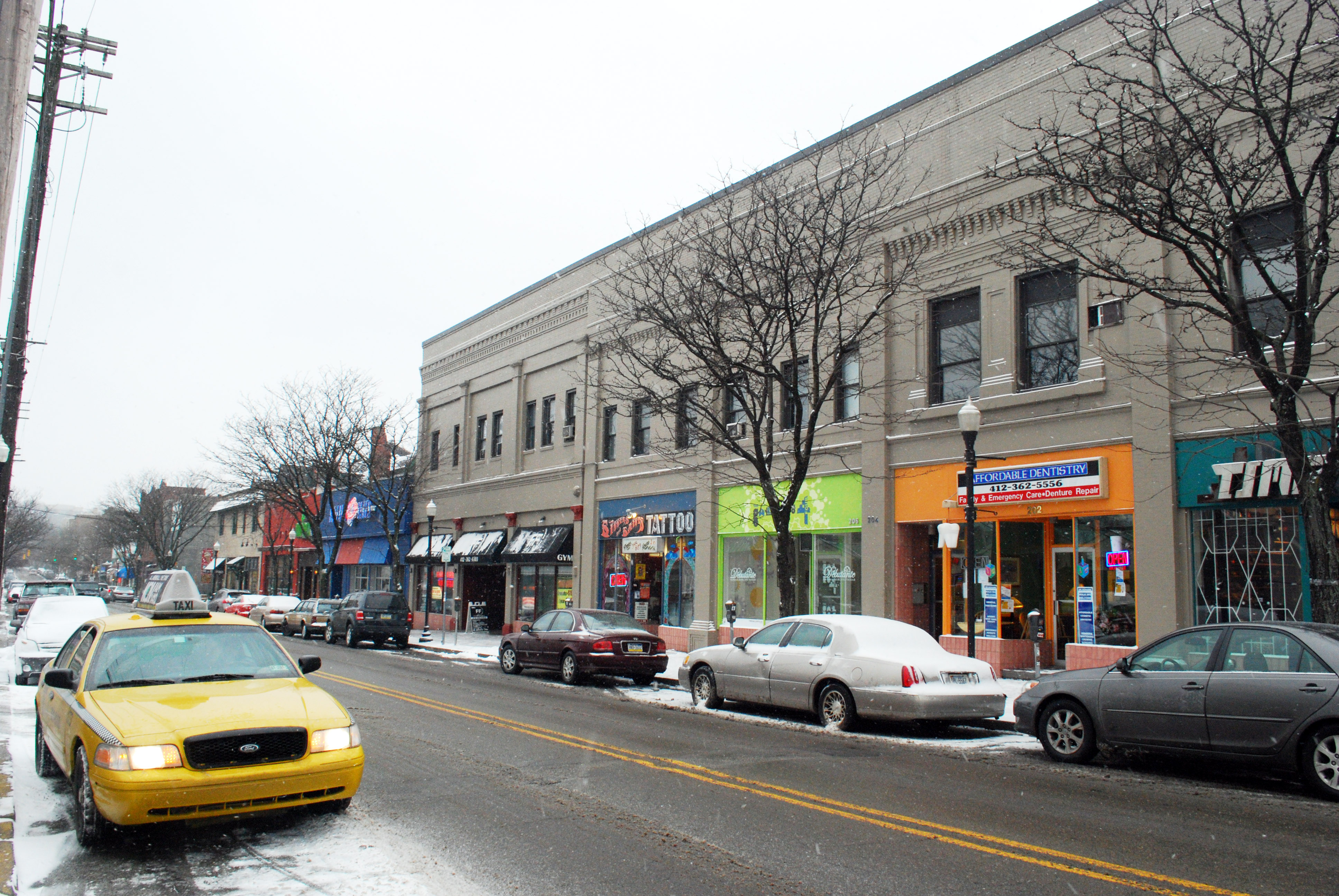 Stores and restaurants line South Highland Avenue in Shadyside, Pittsburgh.